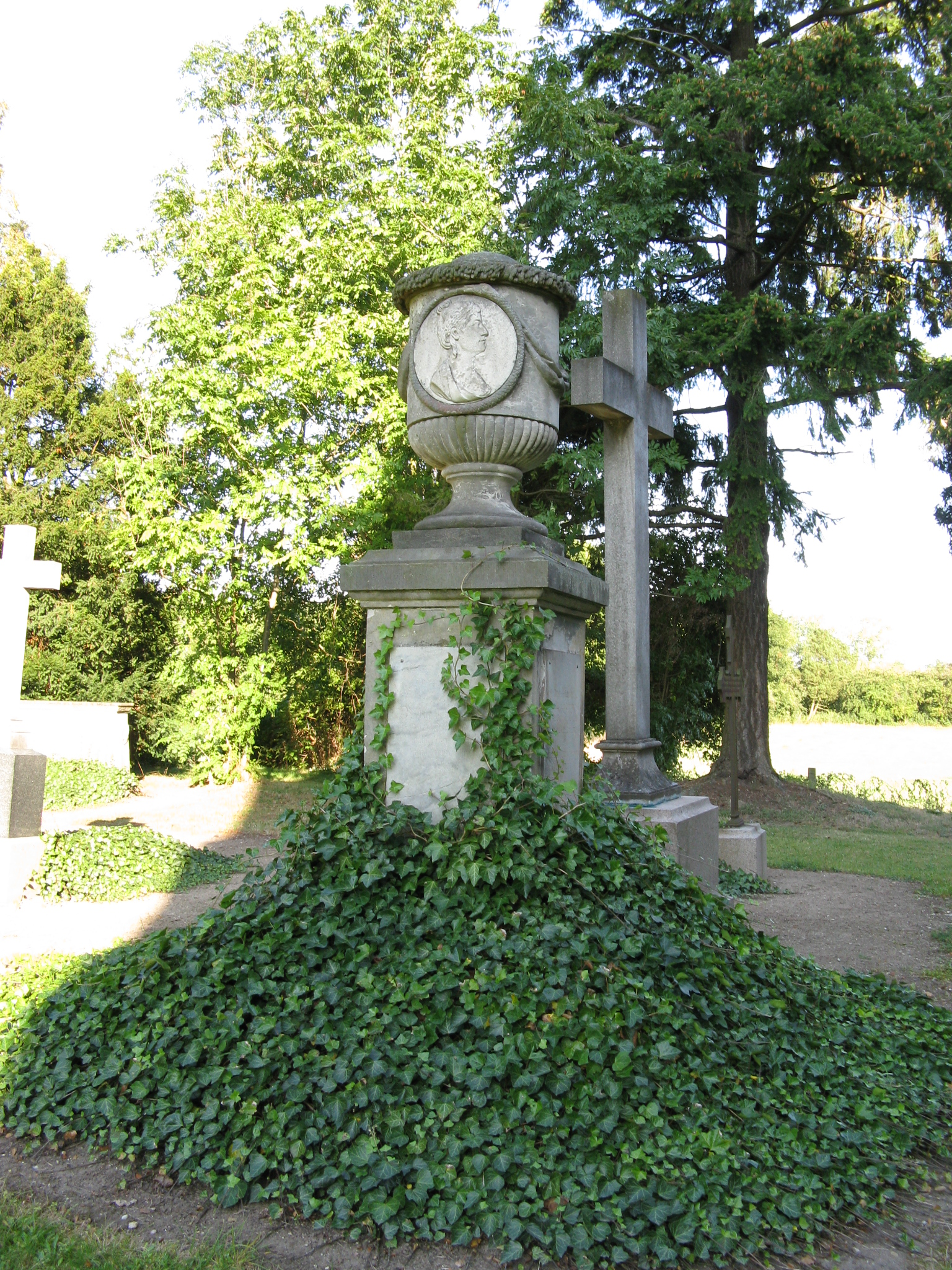 Grave of Friederike Caroline Henriette von Oertzen, geb. Freiin von Pechlin, at church yard in Kittendorf, district Mecklenburgische Seenplatte, Mecklenburg-Vorpommern, Germany